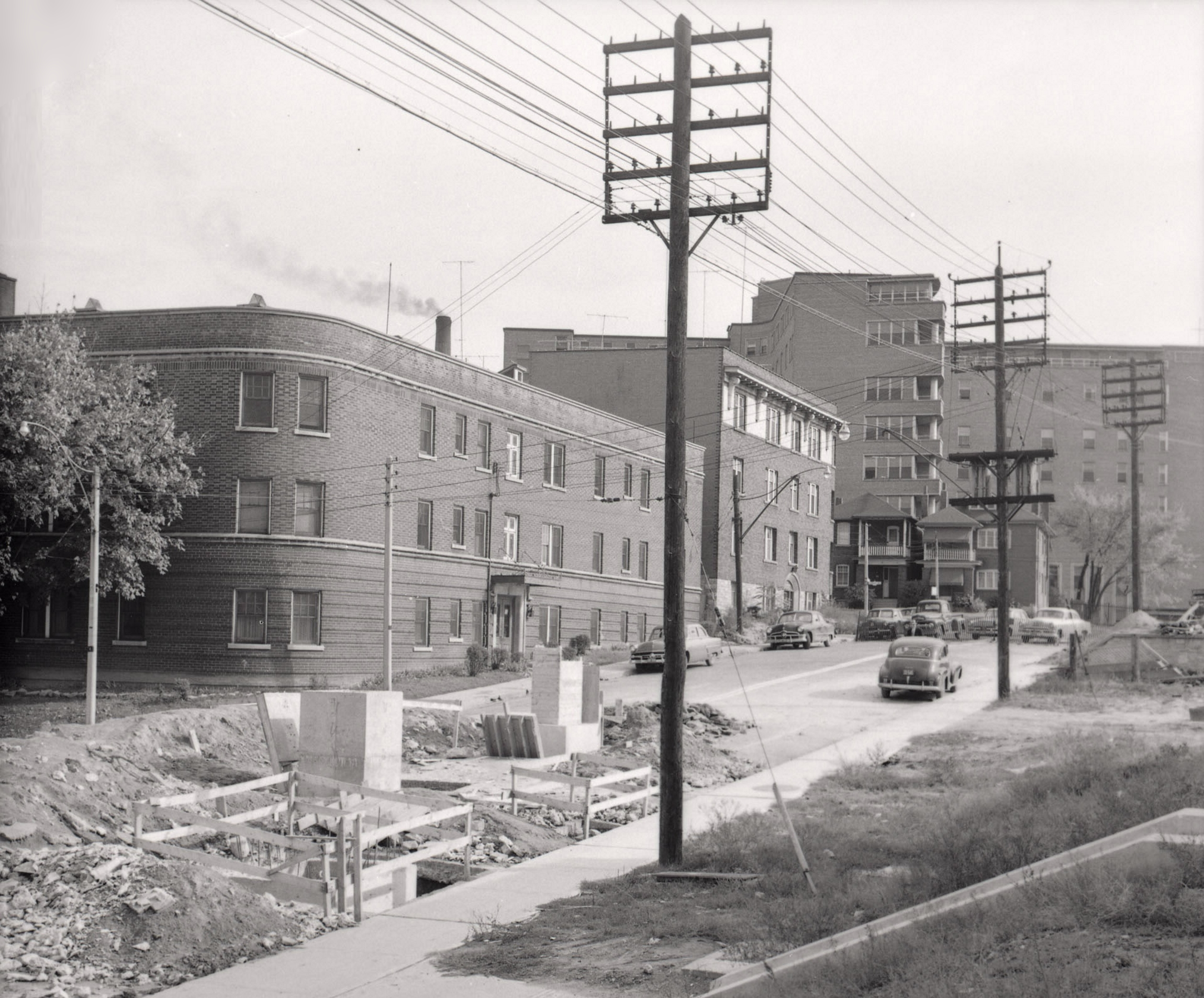 Former section of Queen Street east of Parkside Drive in 1956, before becoming part of The Queensway, which is under construction